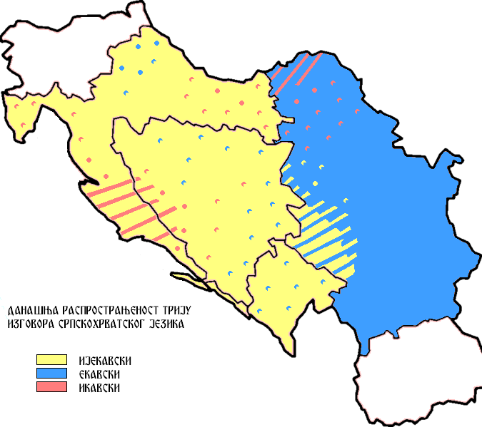 Map of the spread of the three dialects of the Serbian, Croatian, and Bosnian languages (in Serbian)